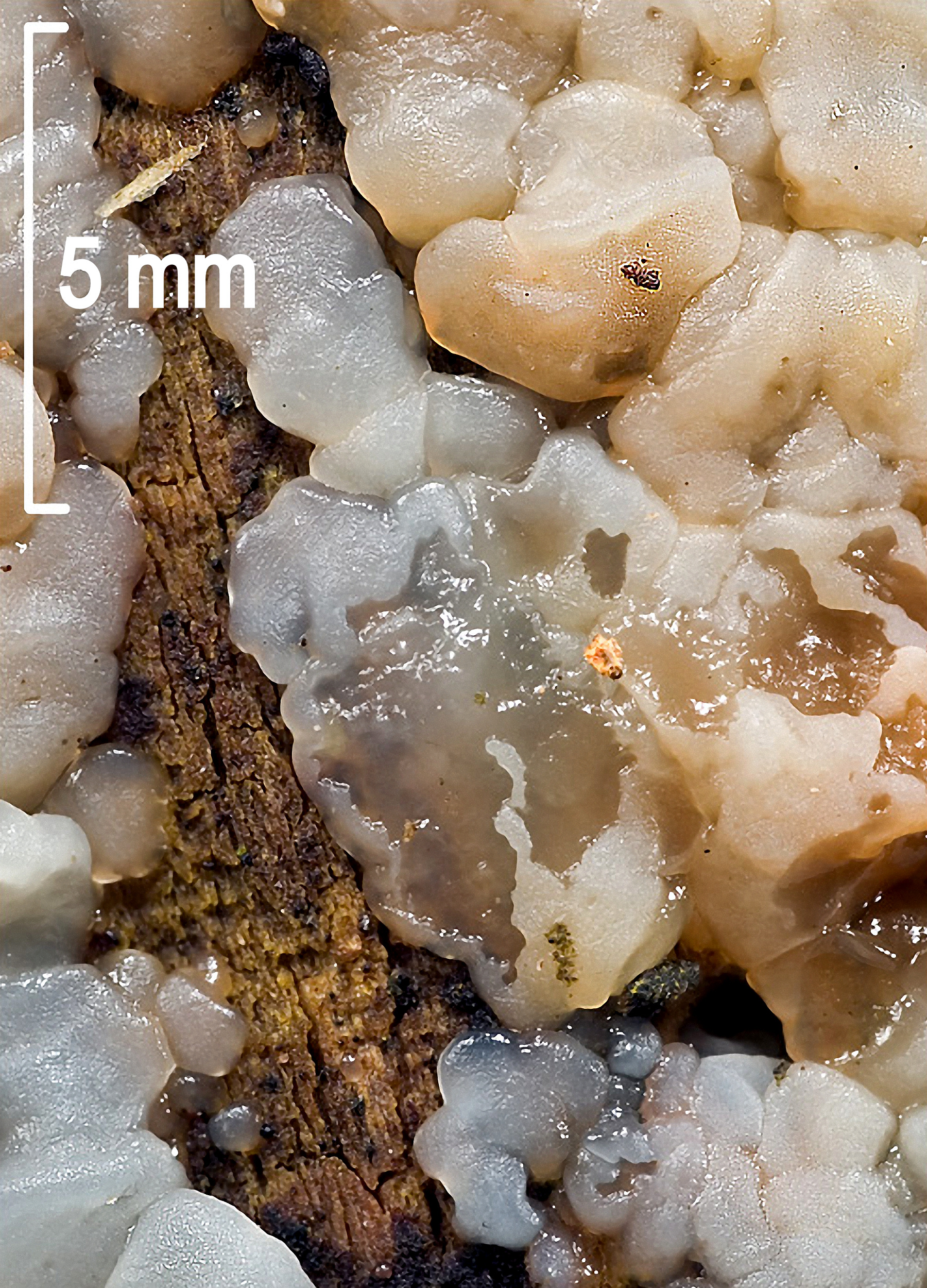 Exidia thuretiana Location: near village Kopriva, Kras, Slovenia Observation Notes: Exidia cartilaginea Date: Dec. 13. 2008 Lat.: 45.88833 Long.: 13.83885 Code: Bot_315/2008-5498 Habitat: Light mixed karst forest and bushes, predominantly oak, stony ground, limestone, shaded by tree canopies, N oriented, cca. 1 m above ground, partly protected from rain, precipitations 1.500 -1.600 mm/year, average temperature 10-12 deg C, altitude 280 m (920 feet), submediterranean phytogeographical region. Substratum: partly debarked rotten trunk of a thick Hedera helix climbing a Quercus petraea and cut at the bottom by men. Nikon D70 / Nikorr Micro 105mm/f2.8 / Nikon R1 Macro flash Metz 45CL-3 flash For more information about this, see the observation page at Mushroom Observer.